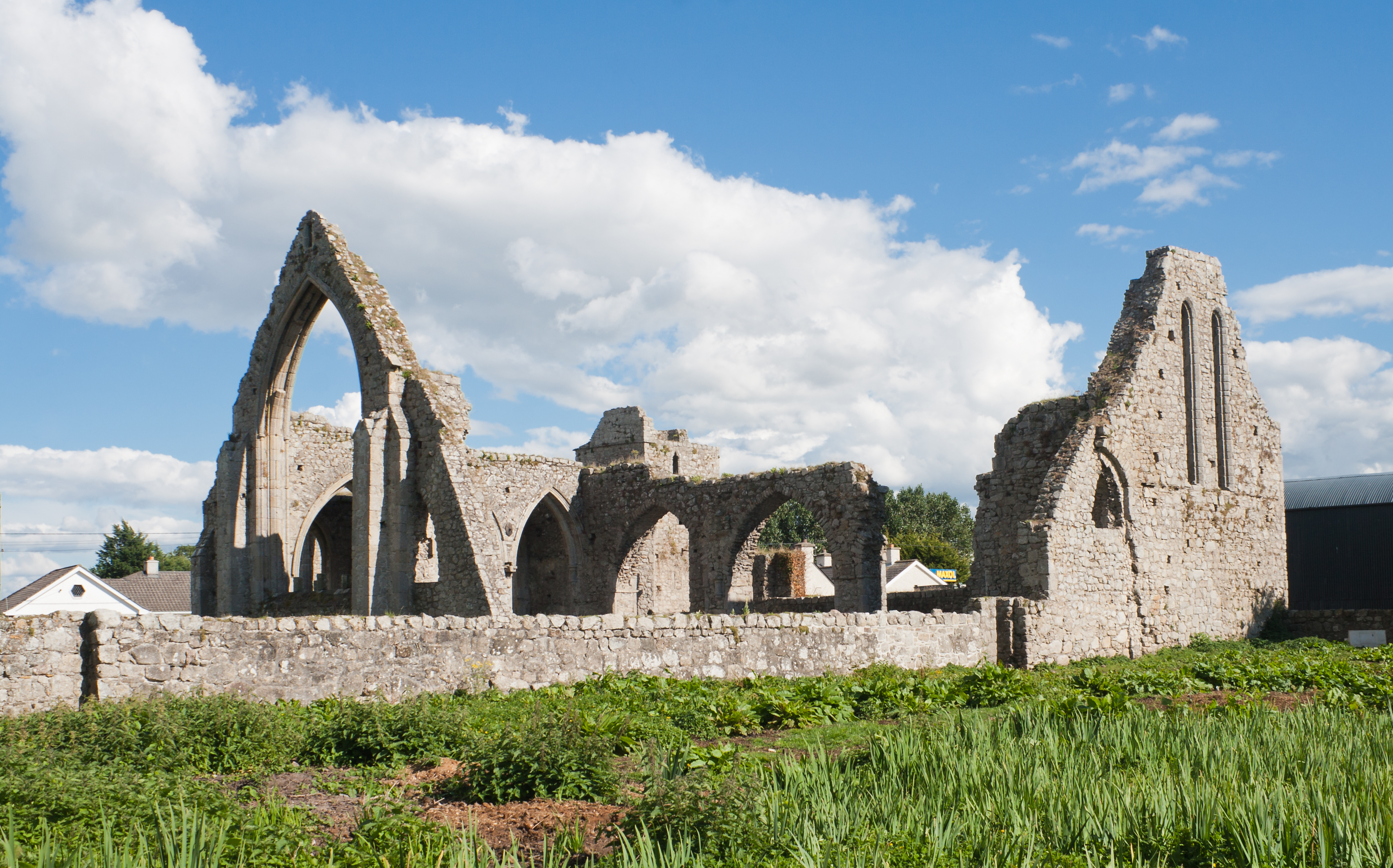 North-west view of the friary with the north transept and its north window on the left and the west gable of the nave.